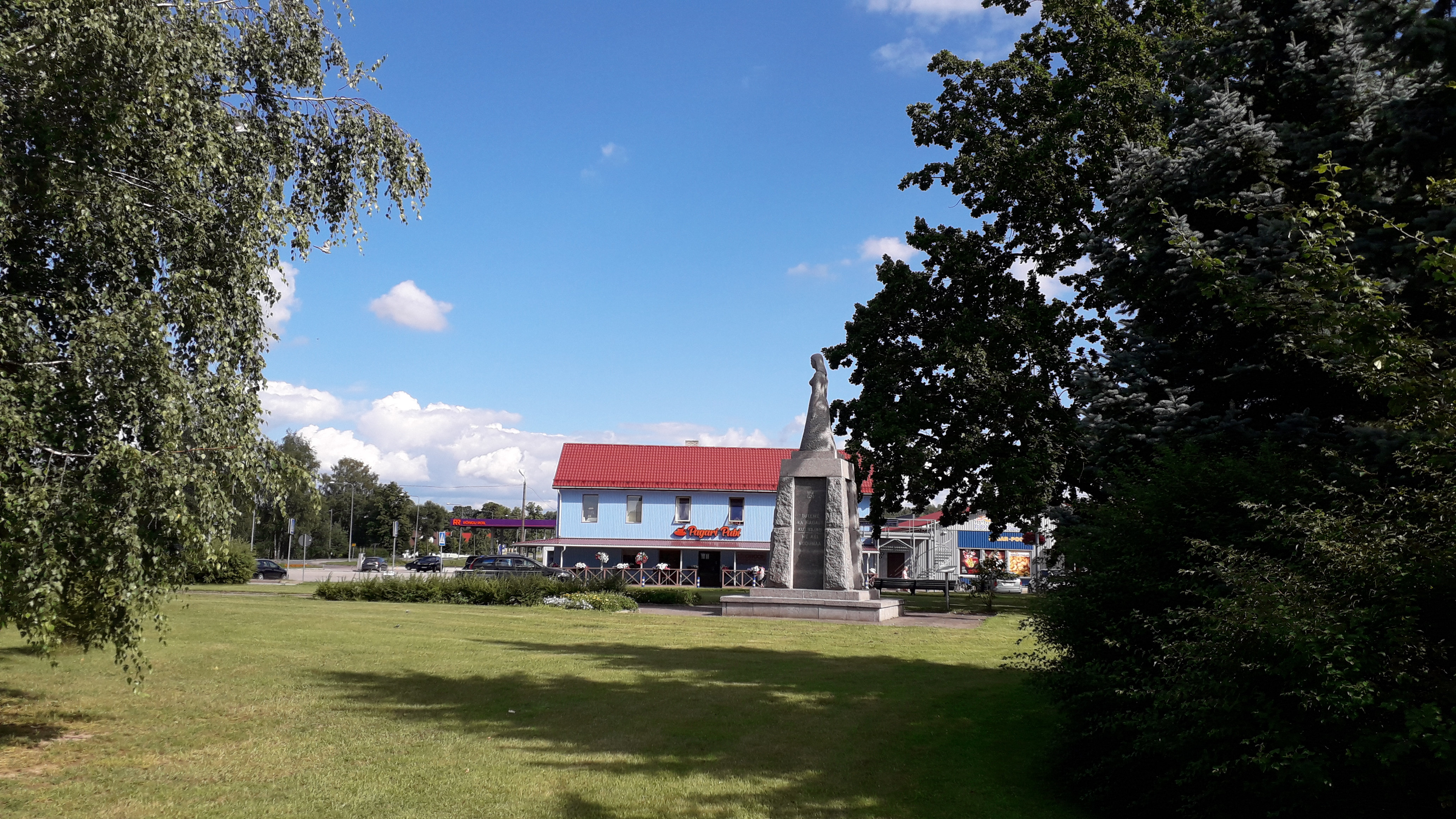 Rõngu